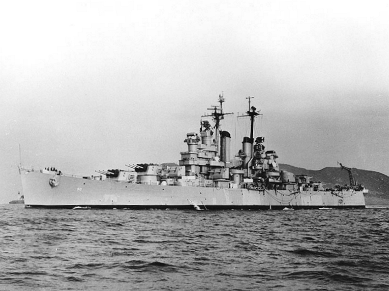 The U.S. Navy light cruiser USS Astoria (CL-90), circa 1947, probably while leaving San Diego, California (USA).